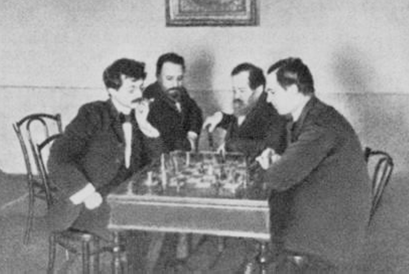 Participants of the St. Petersburg 1895/96 tournament: Lasker, Chigorin, Steinitz, Pillsbury